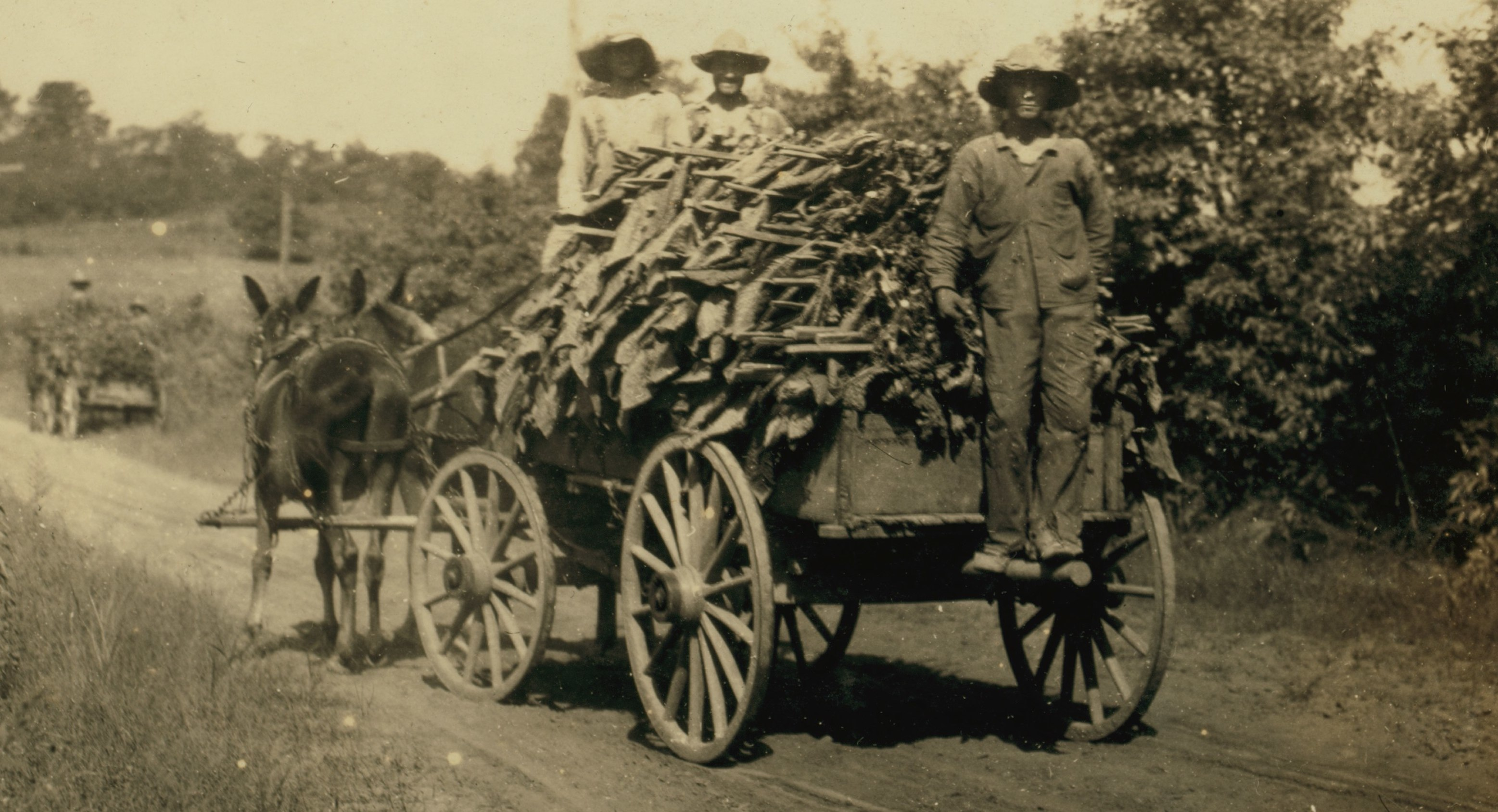 Title: Hauling tobacco. Abstract: Photographs from the records of the National Child Labor Committee (U.S.) Physical description: 1 photographic print. Notes: Boys.; Agricultural laborers.; Tobacco industry.; Carts & wagons.